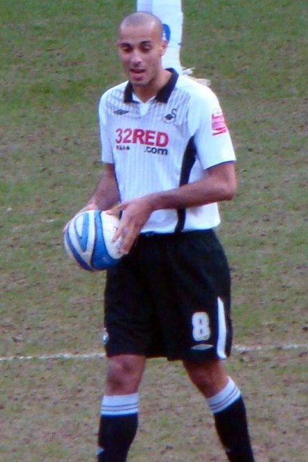 Darren Pratley; 03/04/10 Cardiff V Swansea, Chamionship, Cardiff City Stadium, Cardiff, Wales